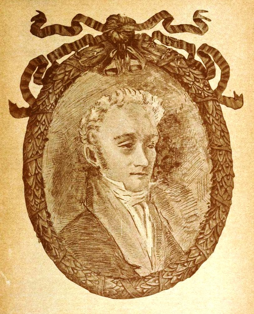 Contemporary portrait of Giacomo Gotifredo Ferrari, Italian composer (1763-1842) on the plate following page xxiii of his autobiography, Aneddoti piacevoli e interessanti occorsi nella vita di Giacomo Gotifredo Ferrari, published in 1830 in London, republished in 1920 in Palermo by R. Sandron